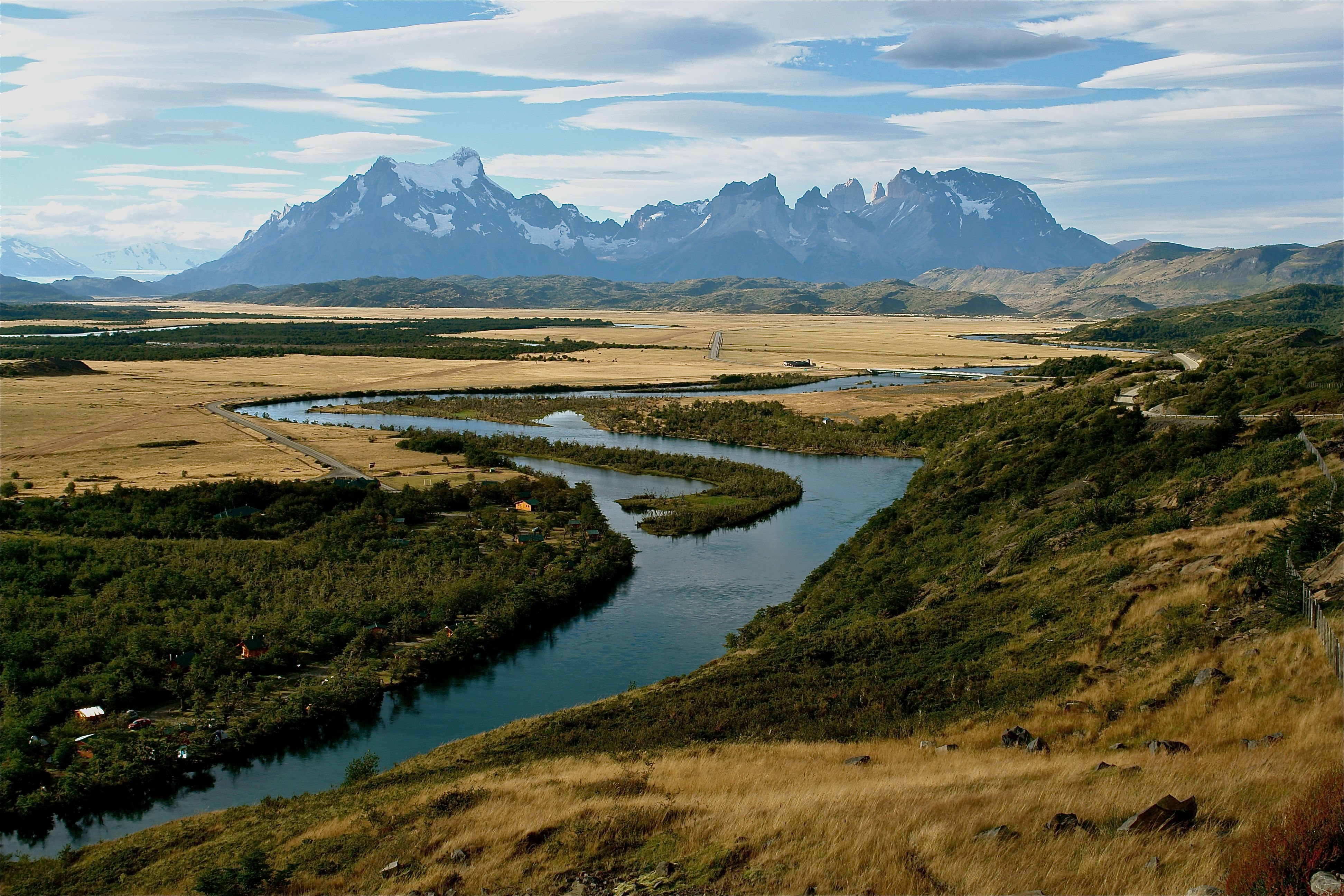 At Pueblo Serrano, there is more reasonably accommodation that is just outside the southern entrance to the national park.